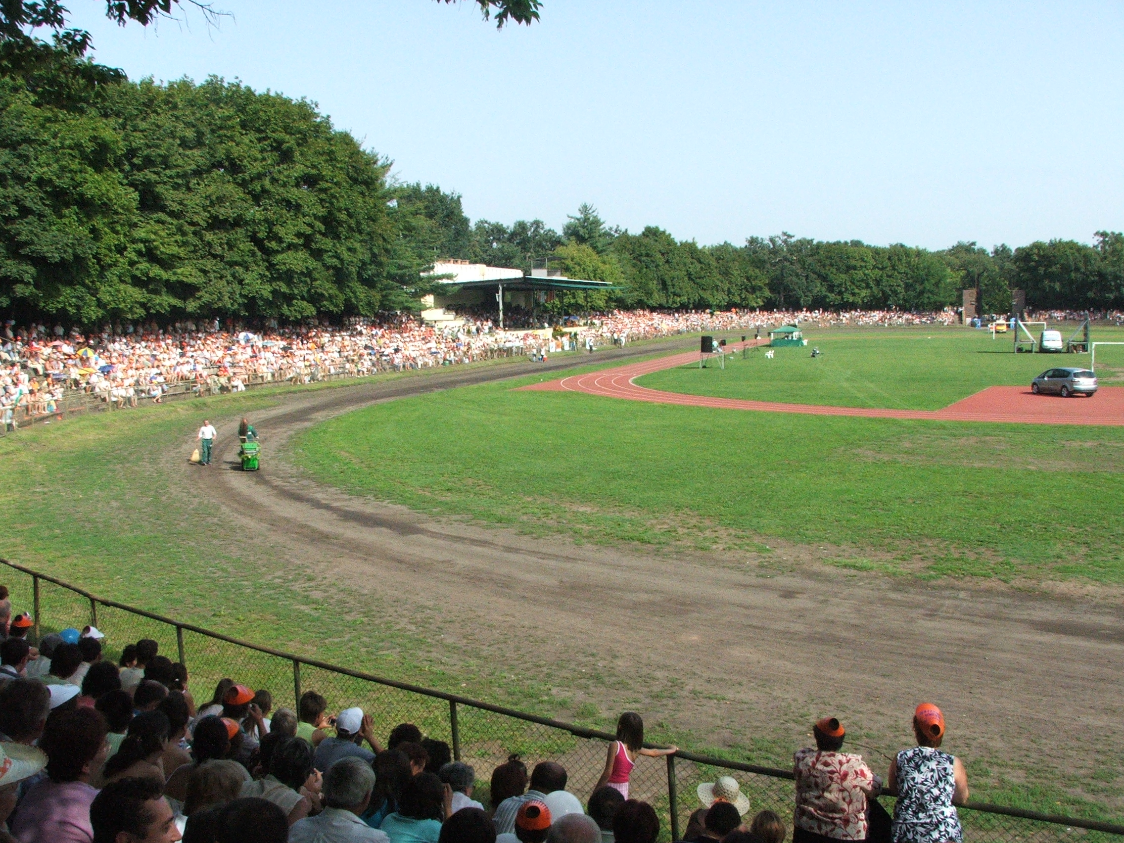 The Nagyerdő stadium in Debrecen, Hungary